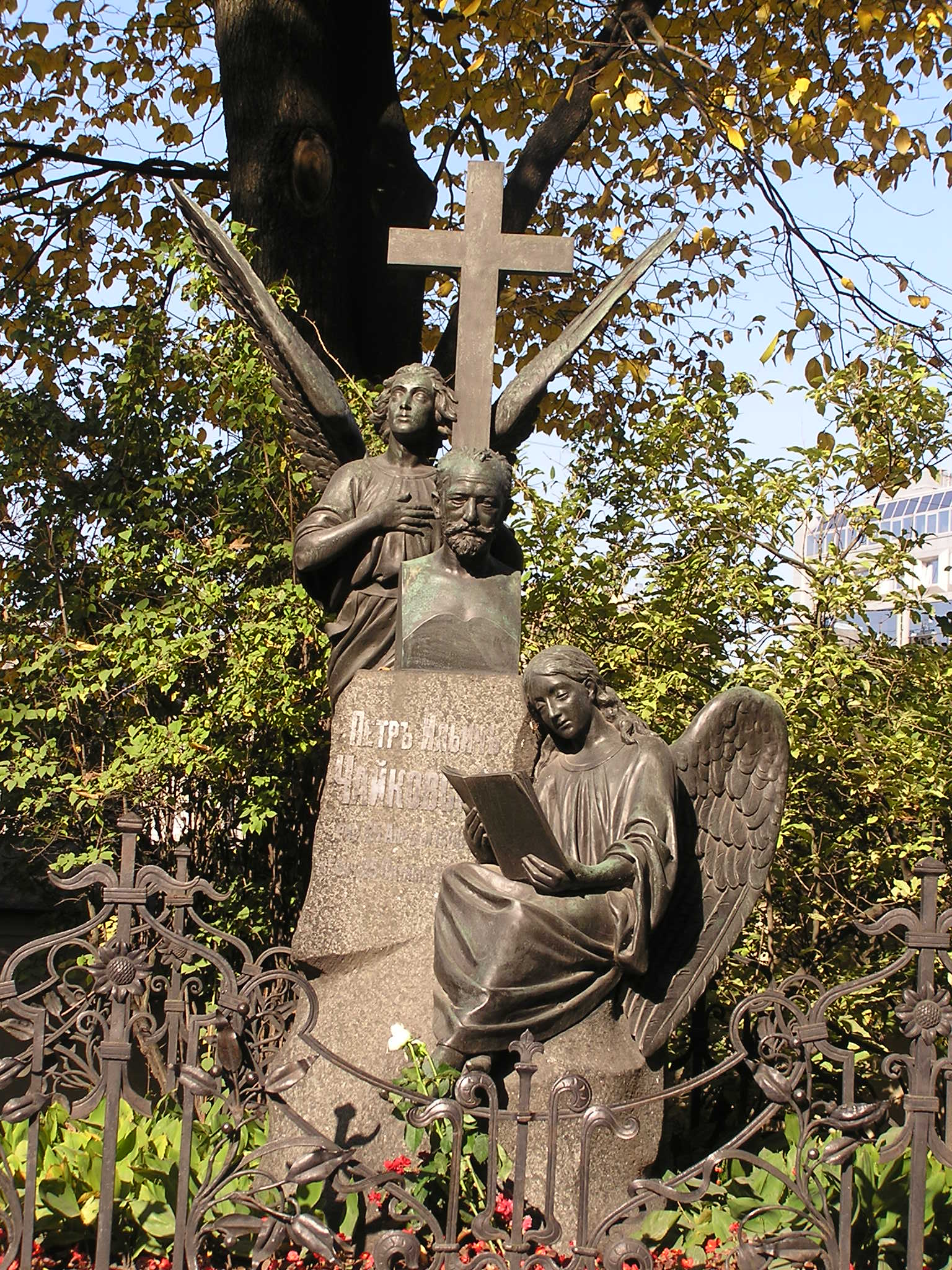 Tikhvin Cemetery